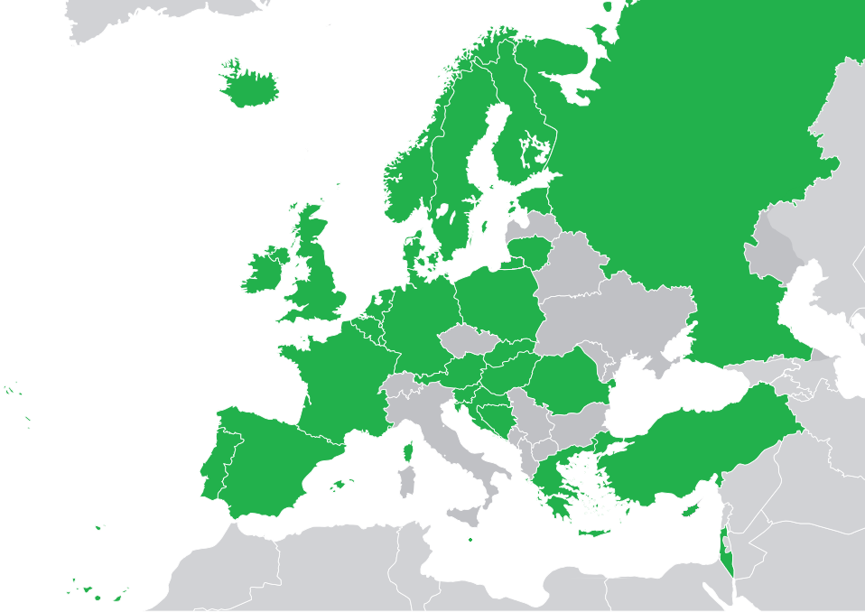 Illustration showing regular participating countries in the Eurovision Song Contest in 1994. The addition of the Eastern Bloc countries, and the separate ex-Yugoslavian states, makes a stark change from the participation map of 1992. Belgium, Denmark, Israel, Luxembourg, Slovenia and Turkey are included because, although they did not participate in the 1994 Contest (having been relegated in 1993), they were regular participants nevertheless. Italy has been removed as a regular participant, for although they participated again once in 1997, Italian television elected not to be a part of the Song Contest.